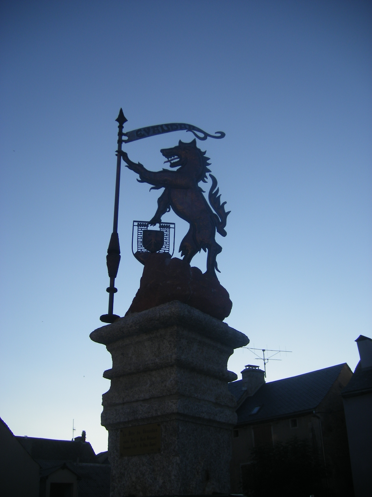 Aumont-Aubrac - a fountain featuring the Beast of Gévaudan